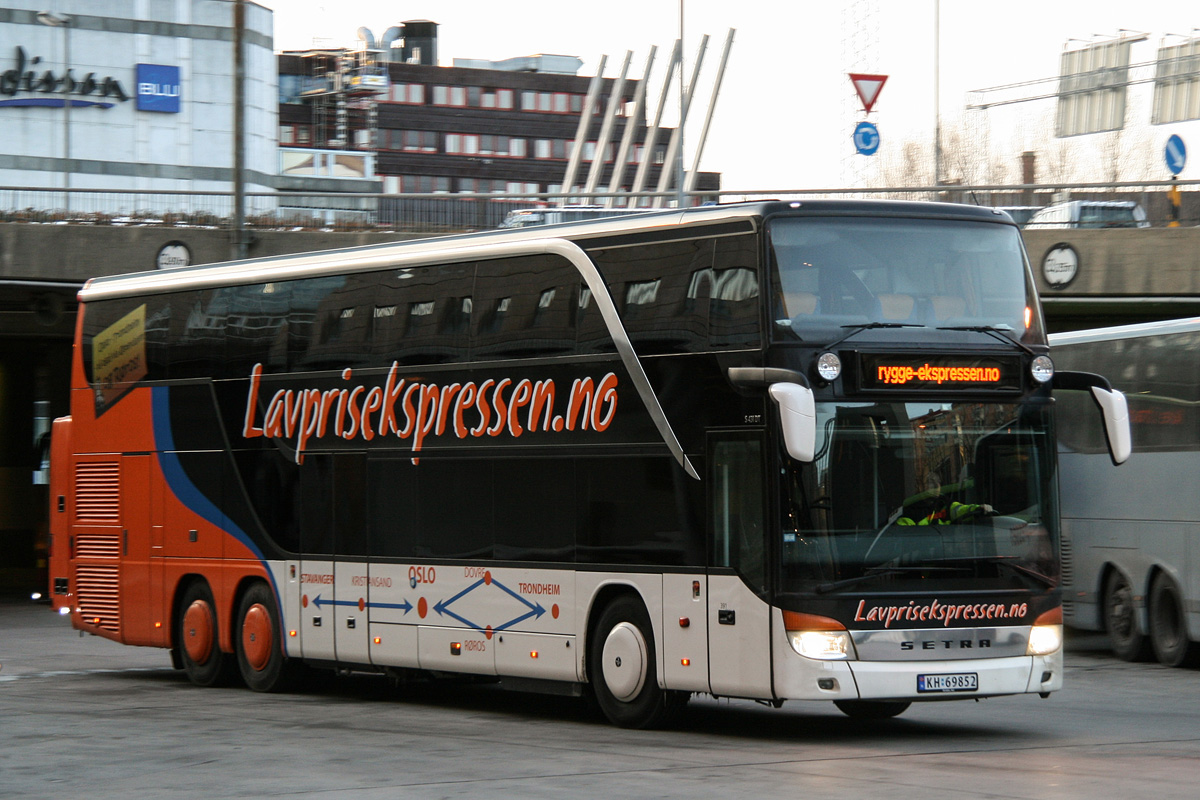 Lavprisekspressen at Oslo bus terminal.